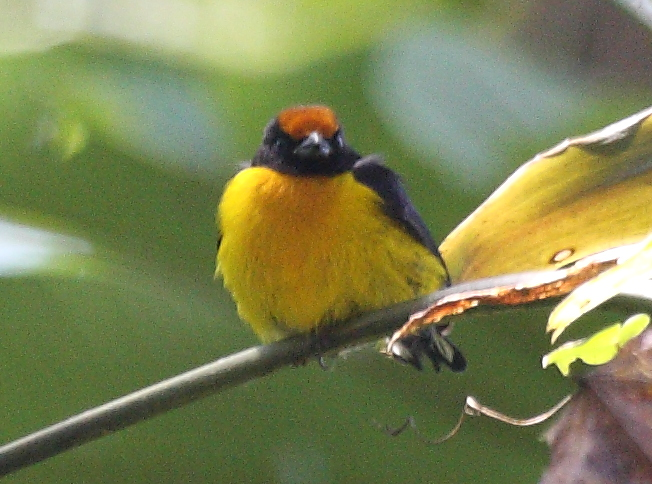 Tawny-capped Euphonia (Euphonia anneae). Taken in Parque National Soberania, Pipeline Road, Gamboa, Panama.